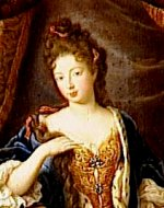 Luise Hippolyte of Monaco